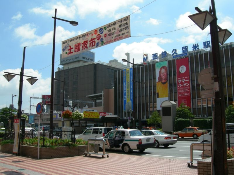 Nishitetsu-Kurume Station on Nishitestu Tenjin-Omuta Line, in July 2006